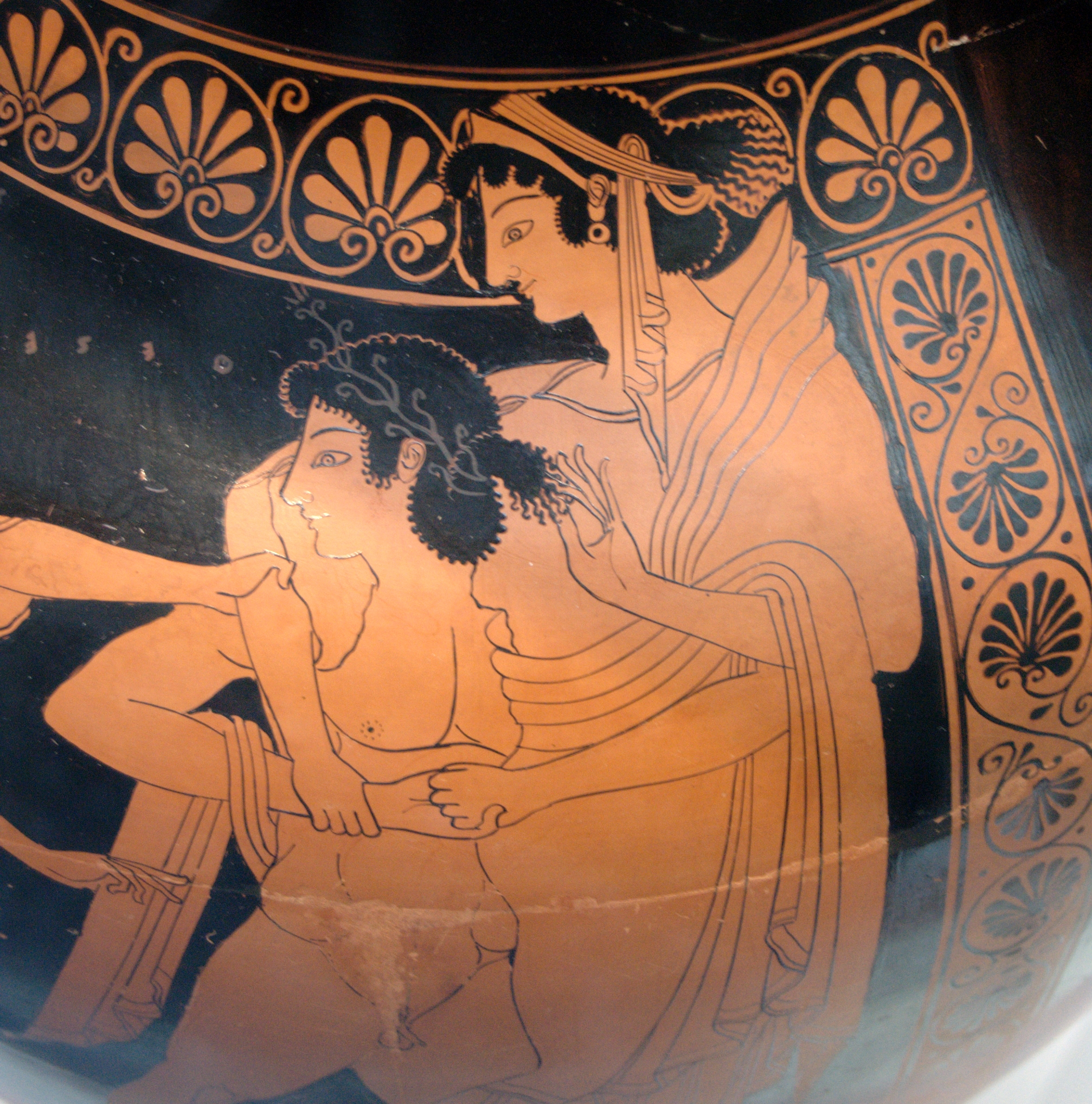 Theseus carrying off young Helena. Side A of an Attic red-figure amphora, ca. 510 BC. From Vulci.